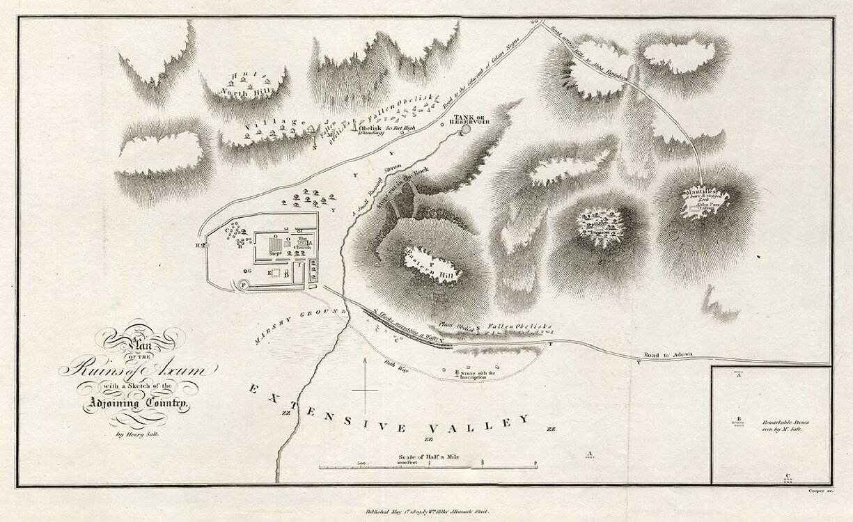 Plan of the Ruins of Axum